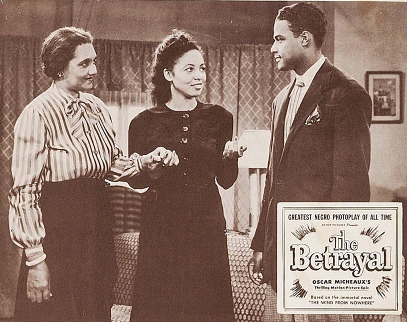 Poster for the 1948 film The Betrayal. This is the last film of Oscar Micheaux and all copies are considered lost. Basing this on the cast list and a poster for the film, this appears to be (from left) Alice B. Russell (Aunt Mary), Verlie Cowan (Linda Lee) and Leroy Collins (Martin Eden). The item has no copyright markings on it as can be seen in the link above. At lower left is Printed in USA.